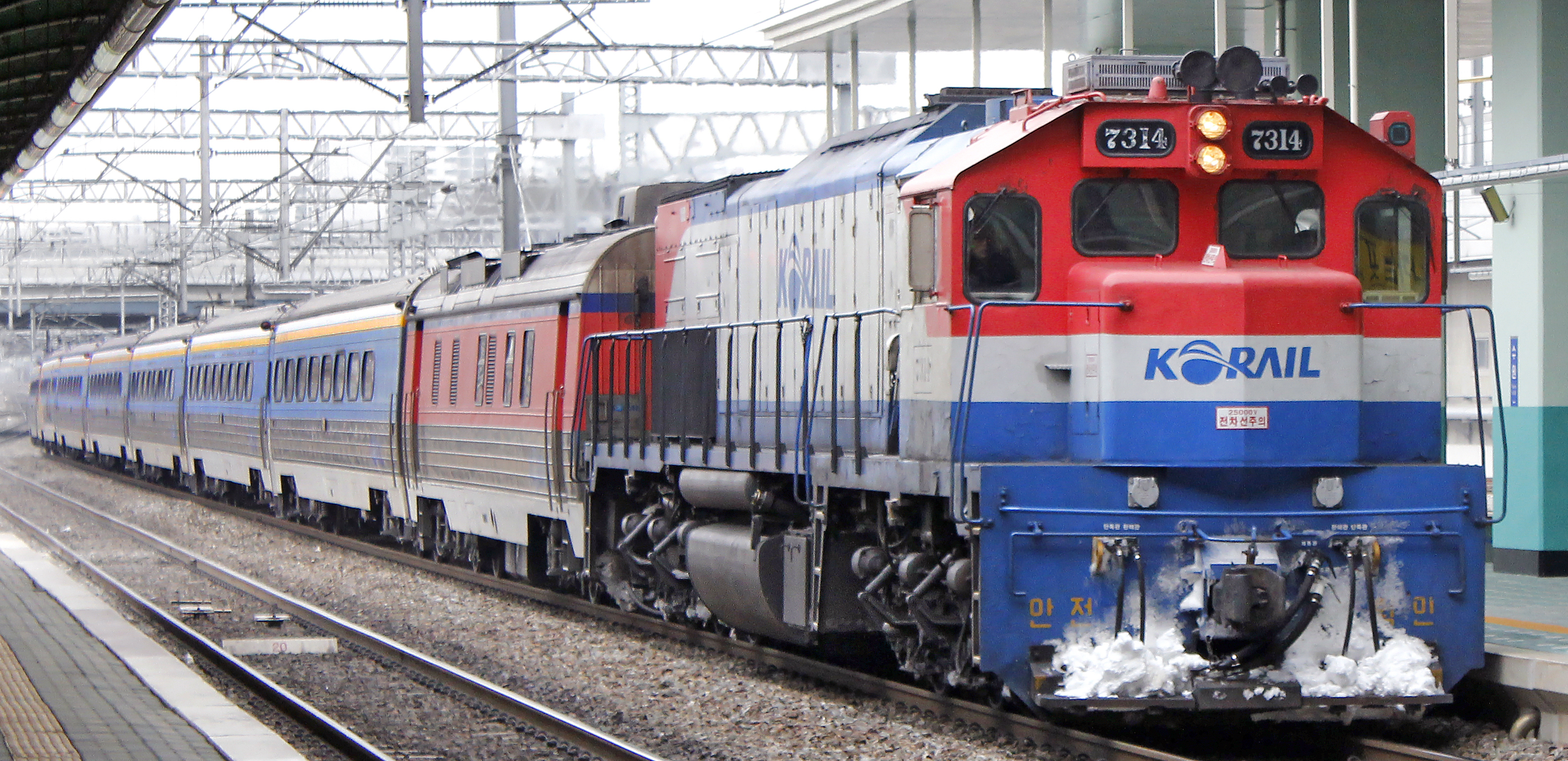 19 Dec 2014